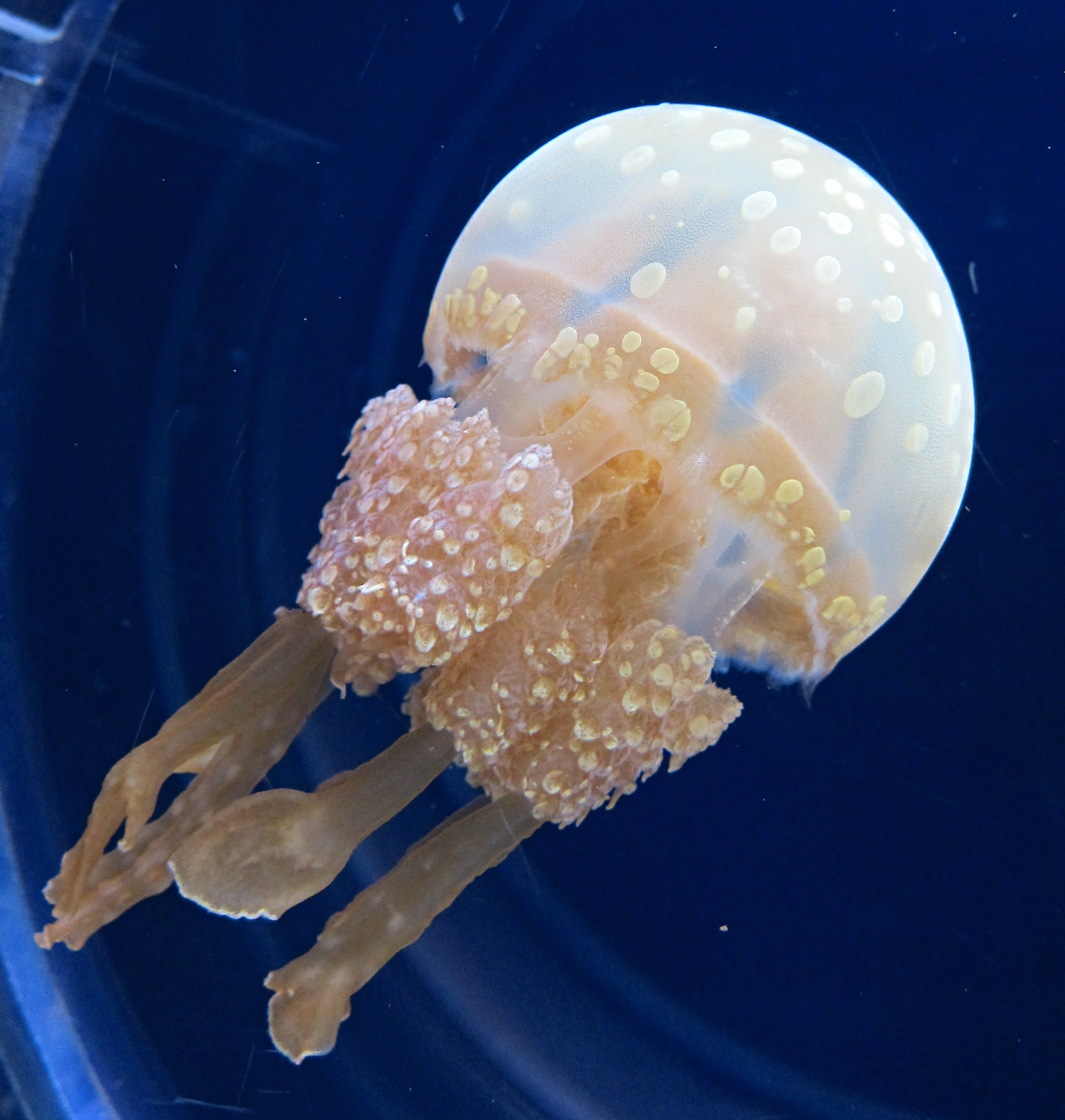 Kyoto Aquarium (京都水族館), Kyoto, Kyoto prefecture, Japan